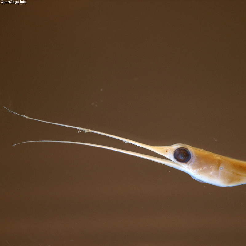 Atlantic snipe eel, Slender snipe eel.